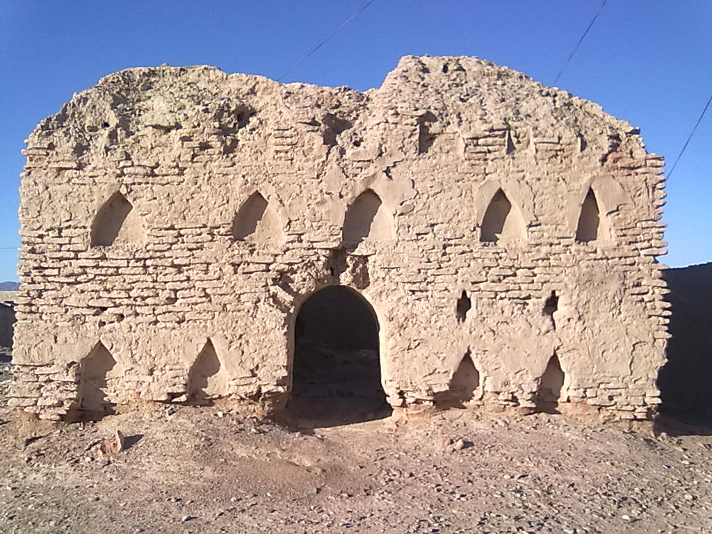 this tomb is one of the oldest tomb in panjgur